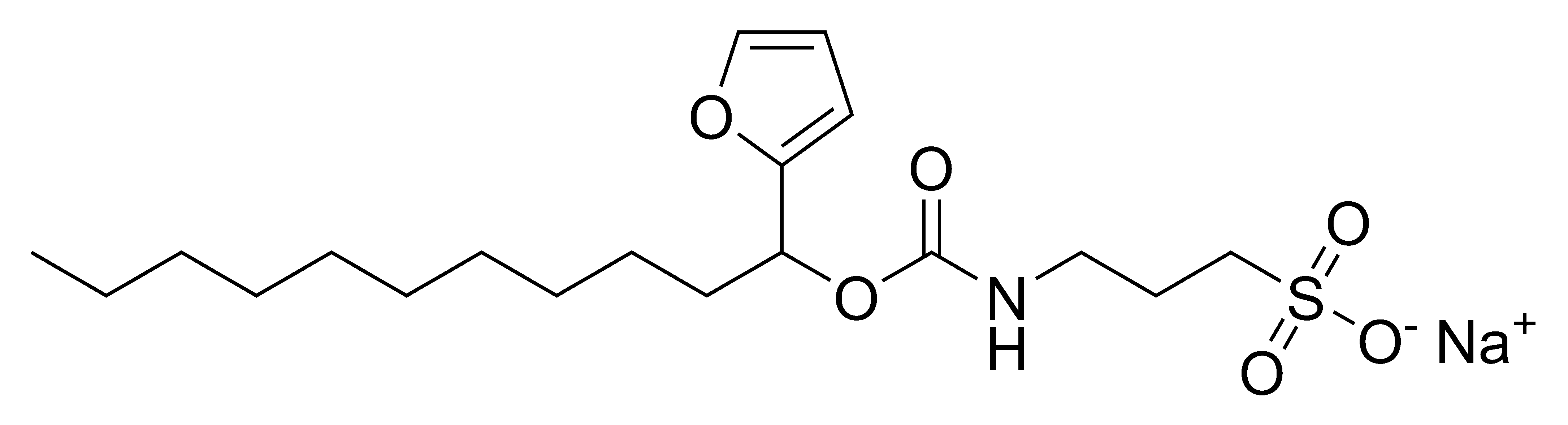 Chemical structure of ProteasMAX